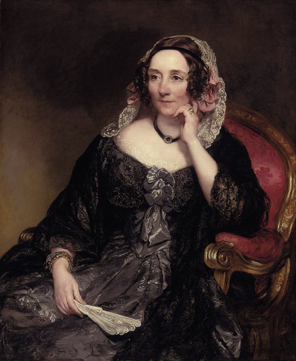 Portrait of Selina, Lady Fitzwygram, née Hayes, seated in an armchair, in a blue dress with a black lace shawl and lace headdress, holding a fan oil on canvas 99.2 x 81.3 cm